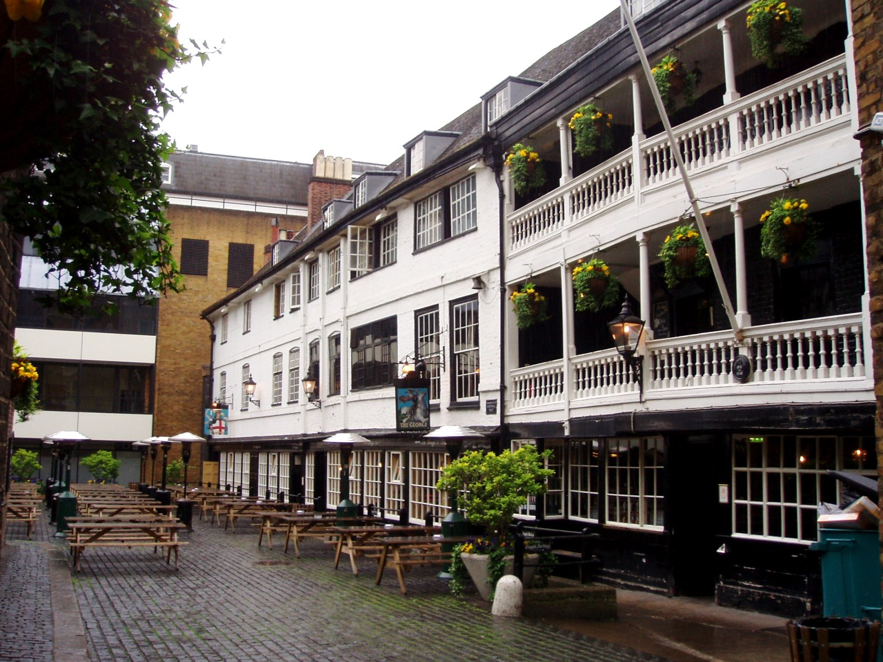 Proper old galleried coaching inn, owned by the National Trust, and run by Greene King (hence, slightly disappointing beers, though the one they brew for this pub, the George Ale, is decent). But it has a huge beer garden area, which is always busy when it's warm. (View of interior.) Owner: National Trust/Greene King. Links: Randomness Guide to London Fancyapint Beer in the Evening Dead Pubs (history)